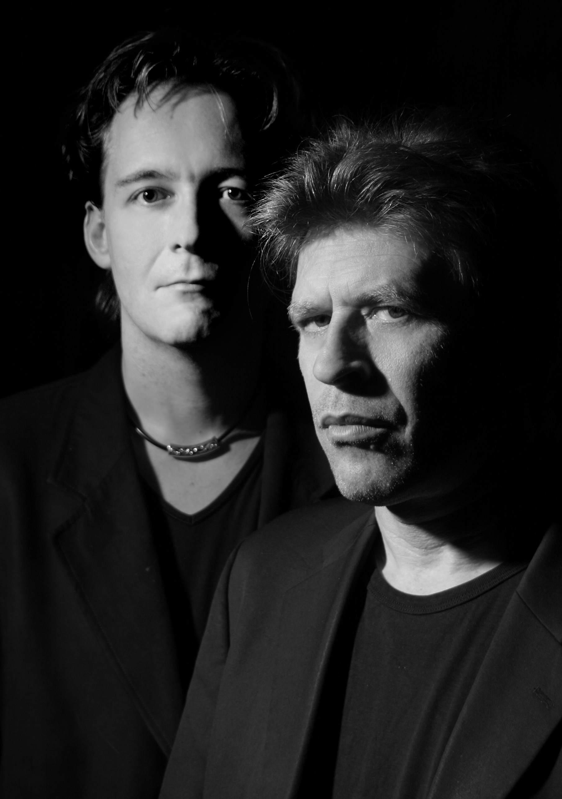 The Russian Doctors, German Band, founded 2003